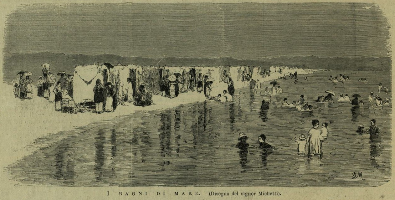 In the September 16, 1877 edition of the Italian weekly L'Illustrazione Italiana there was an article about the town of Francavilla al Mare on page 182. It was accompanied by two drawings by Francesco Paolo Michetti on page 184. This is one of them, showing people enjoying the Adriatic - all adhering to the dress-code of the time.